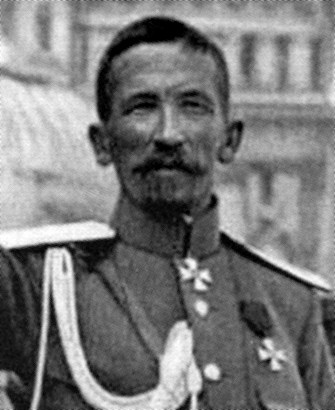 Picture of Lavr Georgiyevich Kornilov, Russian general and leader of the White movement; taken in Moscow